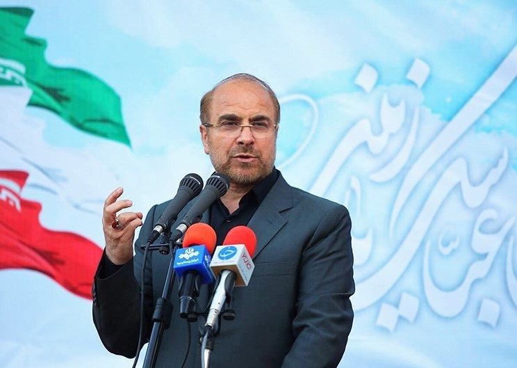 Mohammad Bagher Ghalibaf delivers speech at Sari, Mazandaran Province